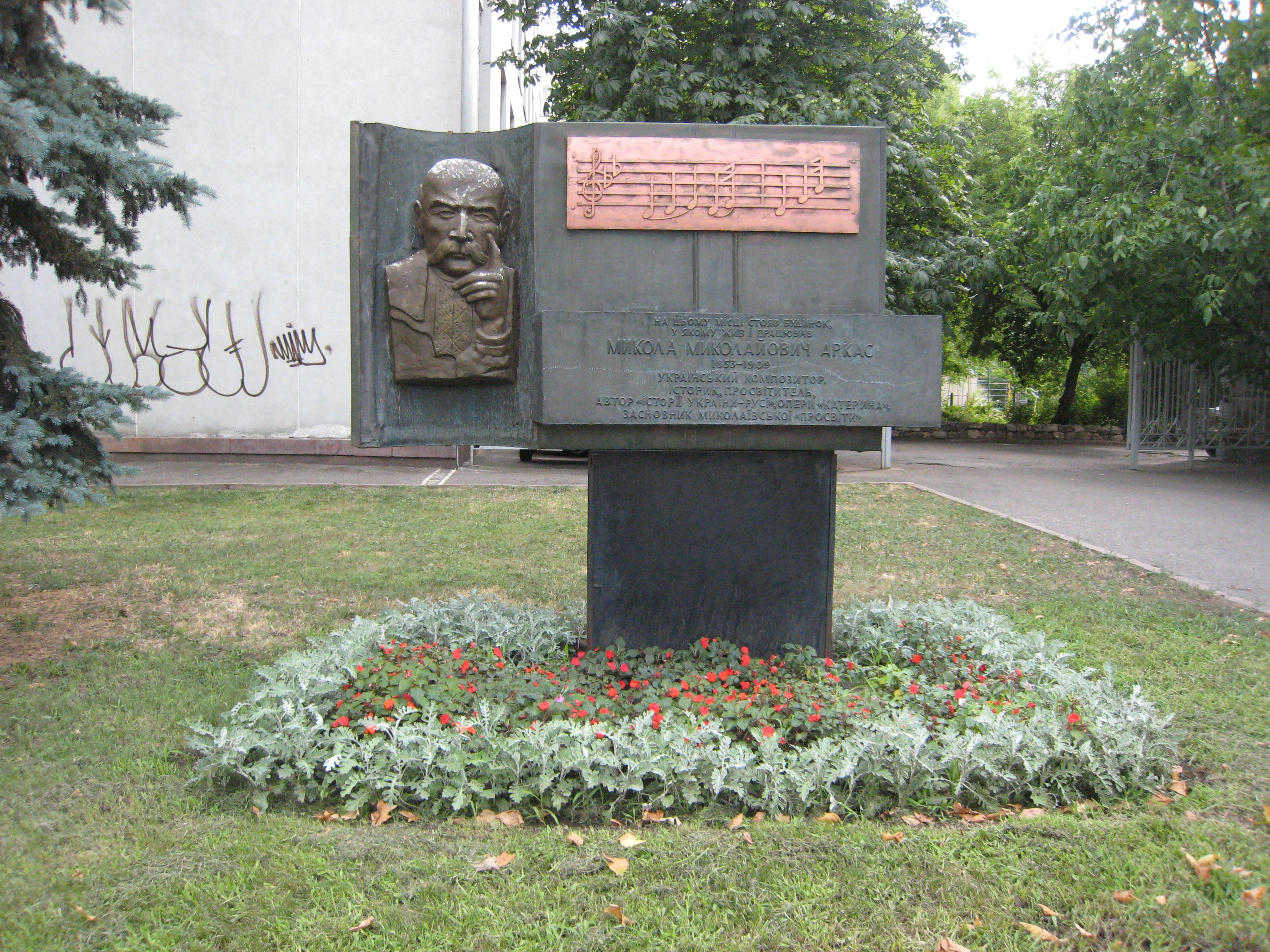 Monument to Mykola Arkas in Mykolaiv, Ukraine.